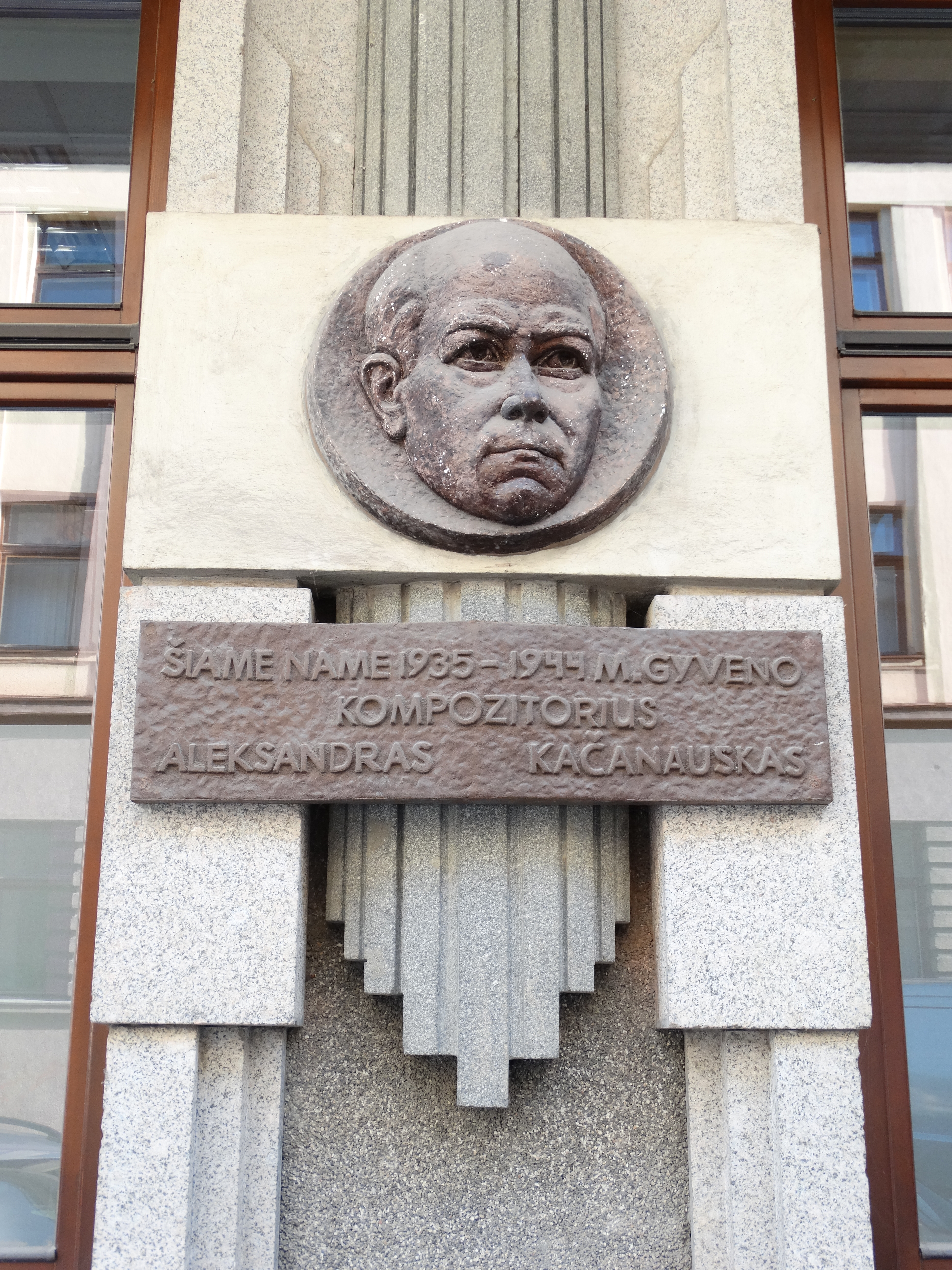 Commemorative plaque Aleksandras Kačanauskas (Gruodžio Str. 9), Kaunas, Lithuania